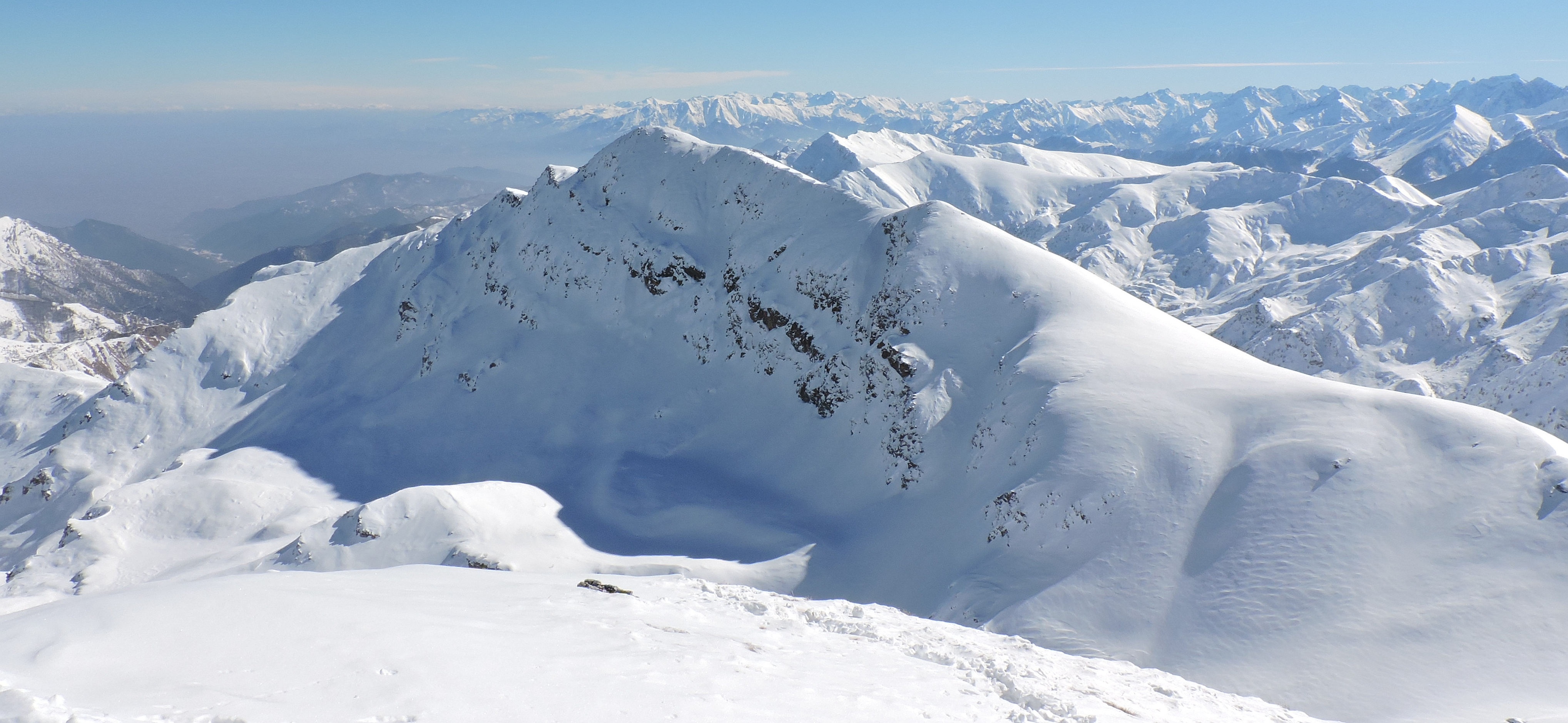 Monte Tibert from Punta Tempesta